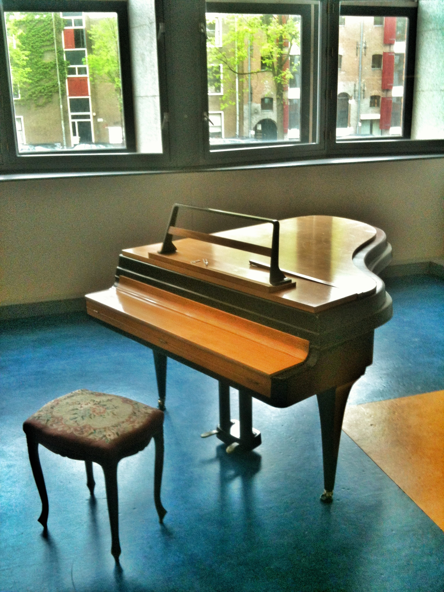 An Aluminum Rippen grand piano